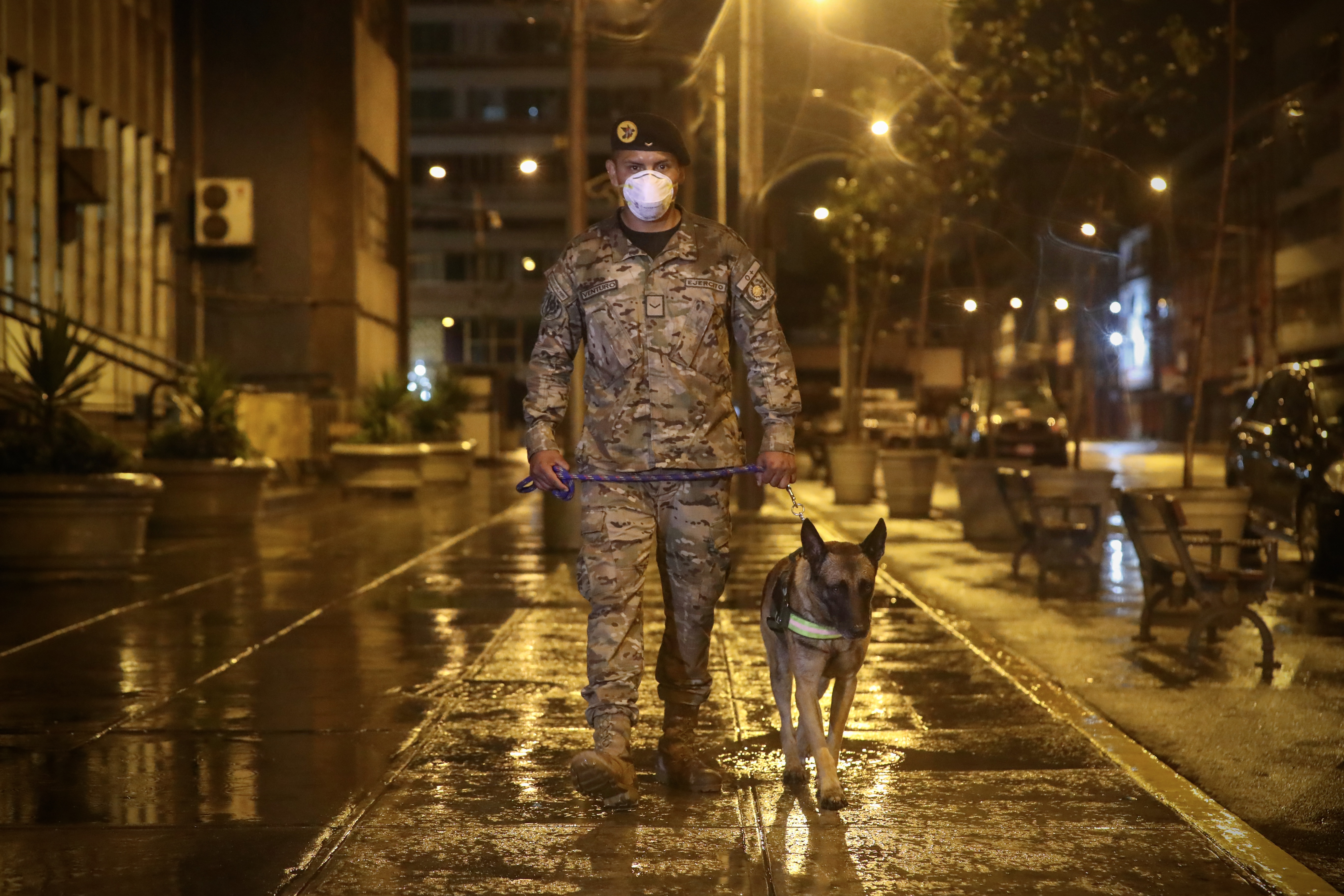 A member of the Peruvian Army with a K9 enforcing a new curfew in Lima.